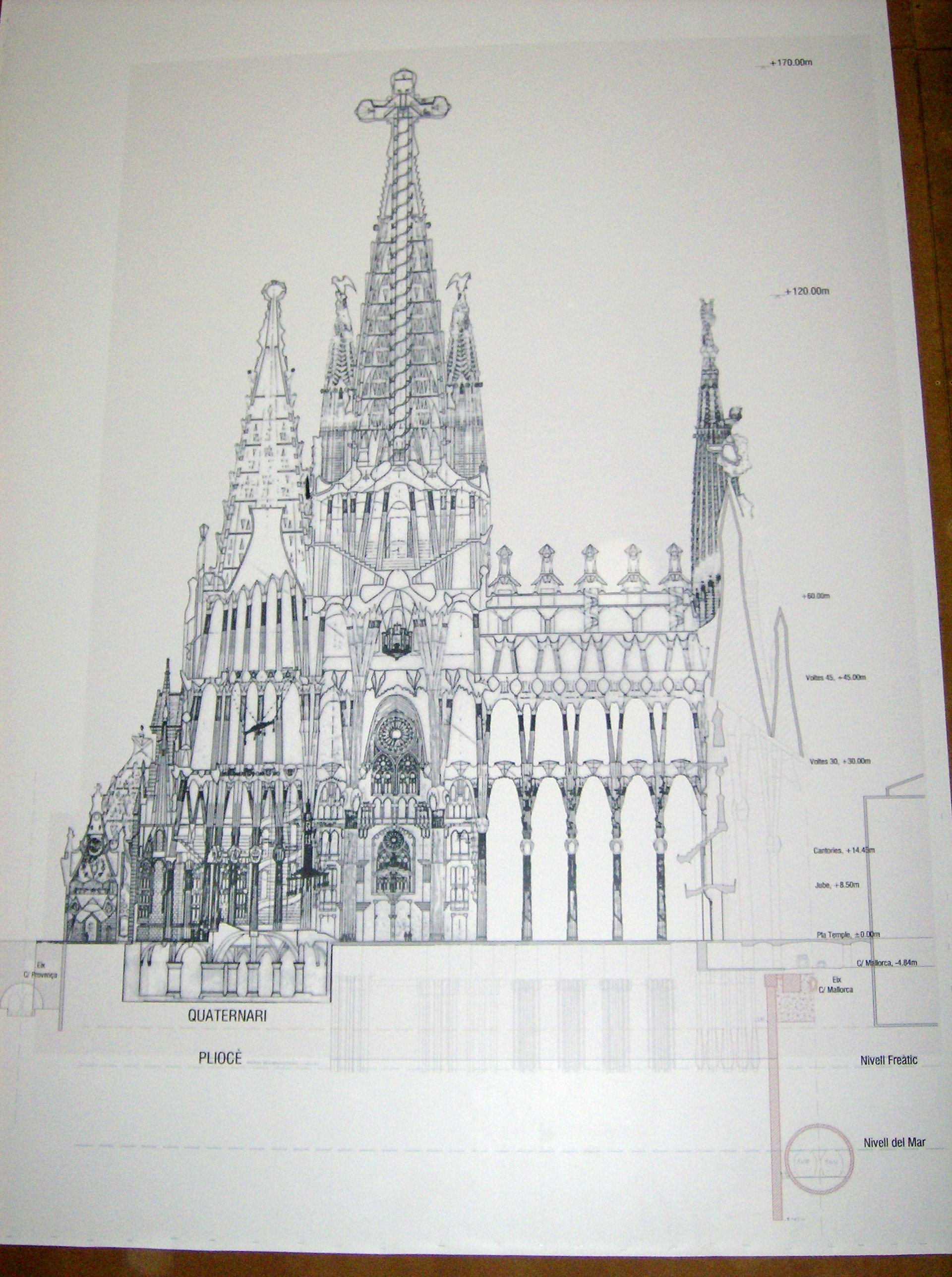 A plan of the Sagrada Familia (Barcelona). The highest tower is not yet build.